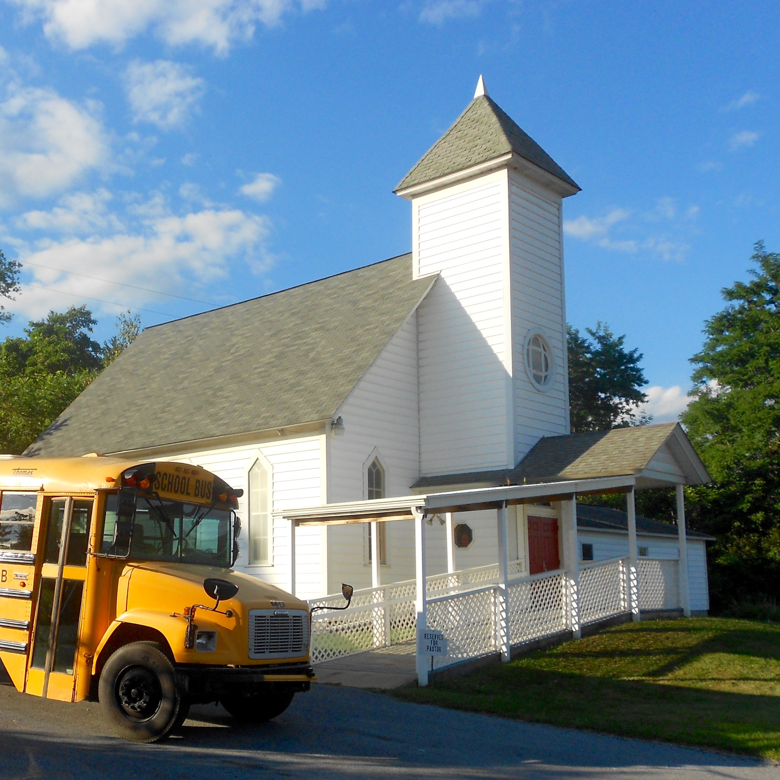 Hannah United Methodist Church in Taylor Township, Centre County, Pennsyvania on South Eagle Valley Road